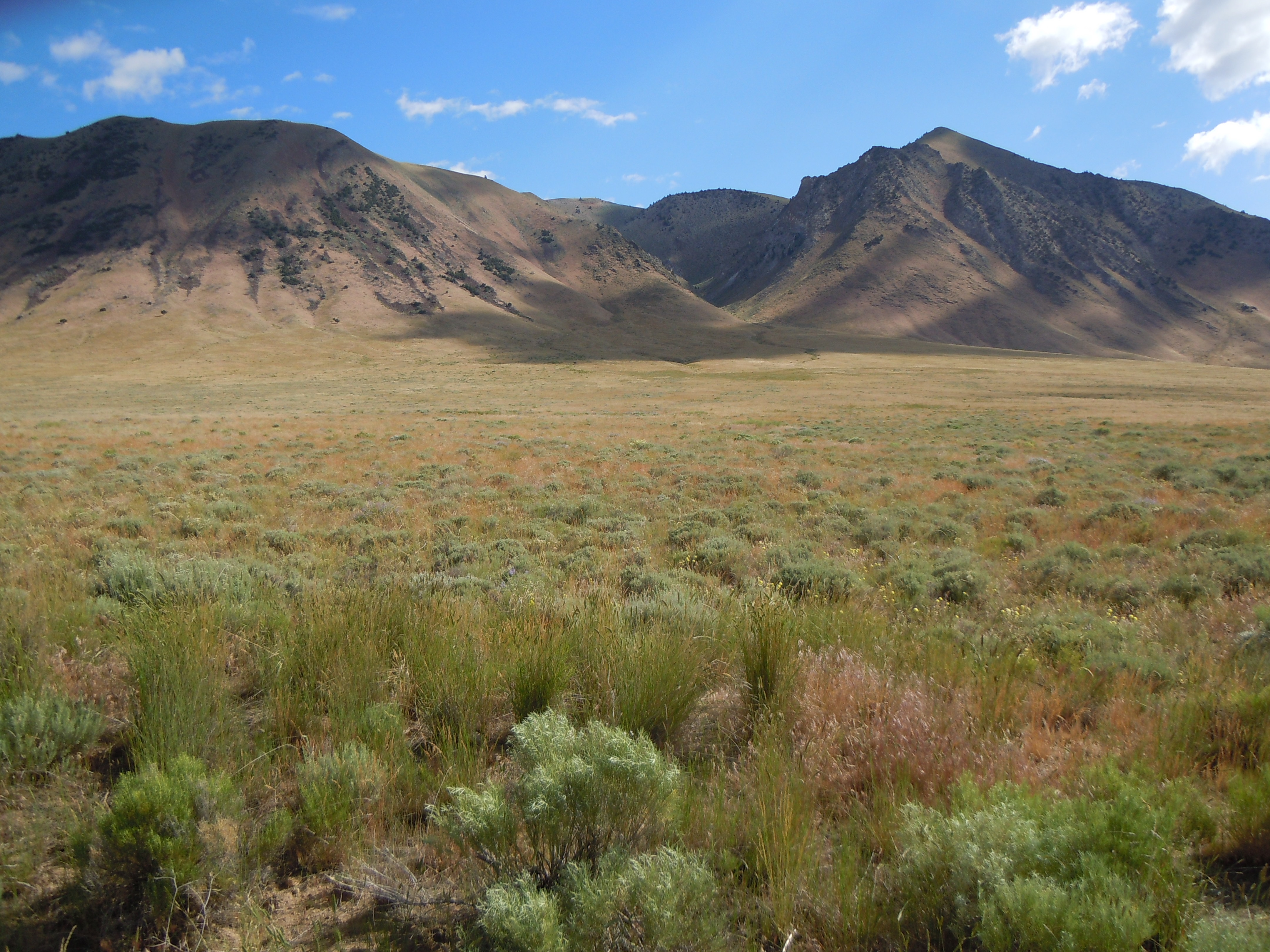 The southern to western faces of Big Southern Butte.